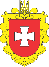 Coat of arms of Rivne Oblast, Ukraine